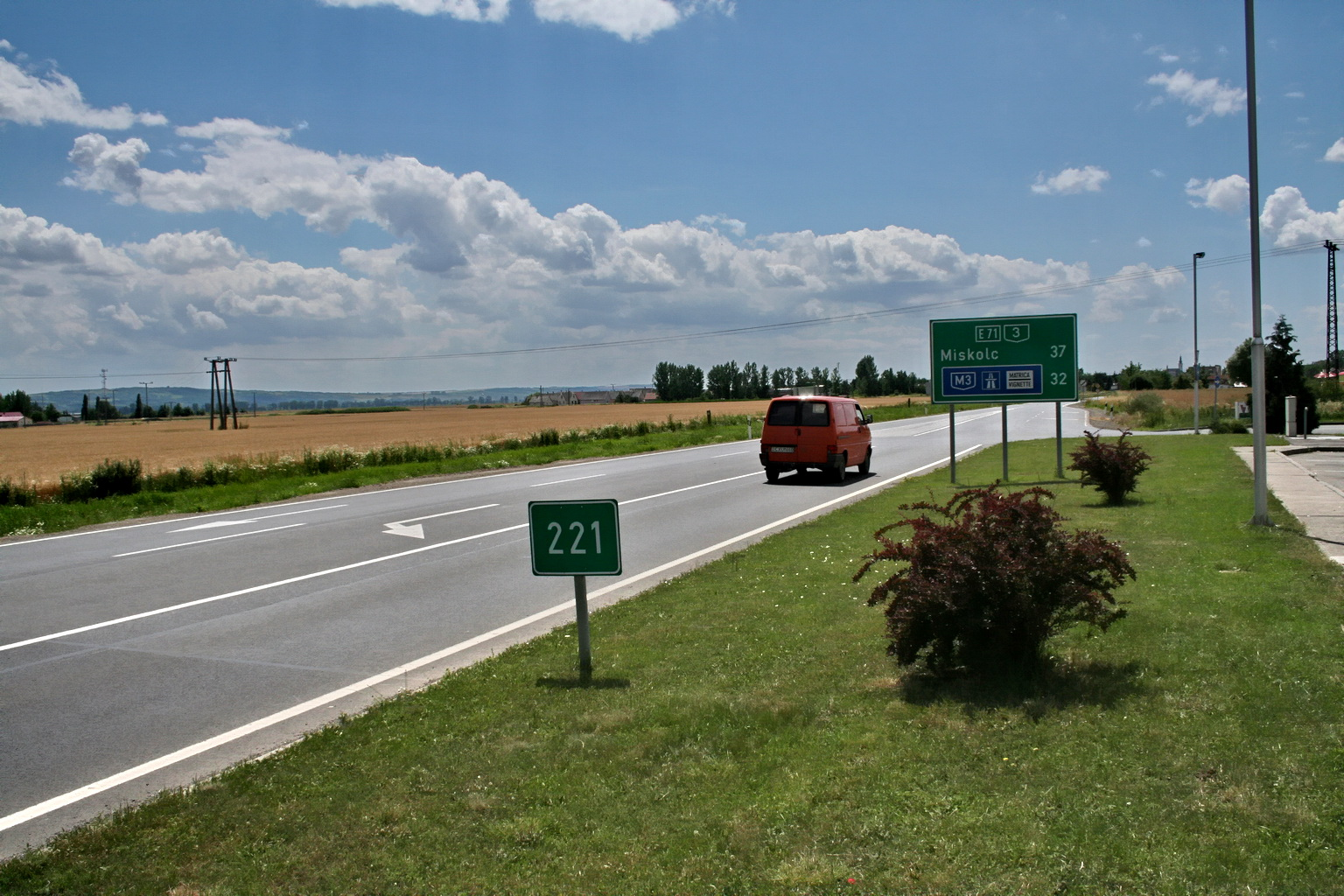 Hungarian Route 3.